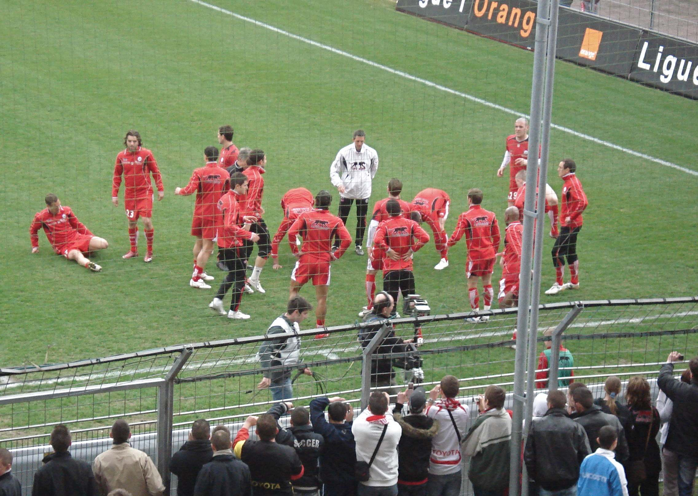 Valenciennes FC training 2006-2007